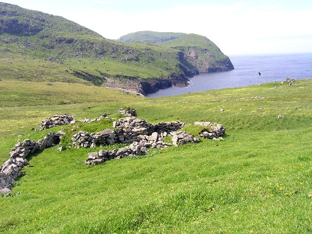 Dry stone bothy, Gleann Mor valley, Glen Bay, An Campar peninsula and Soay summit. Hirta, St Kilda